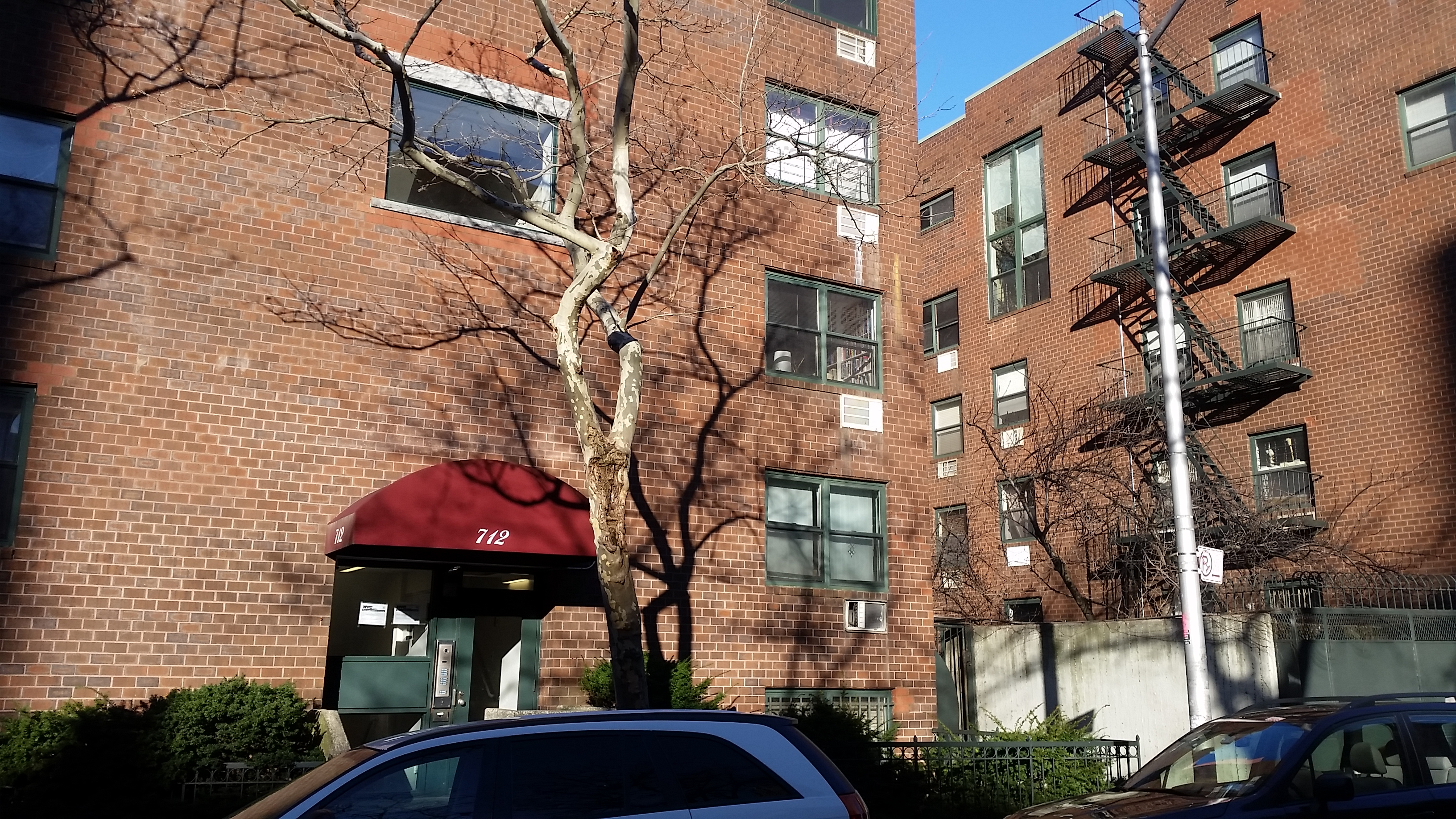 Some of the West Village Houses on Washington between West 11 and Perry in Greenwich Village, New York City